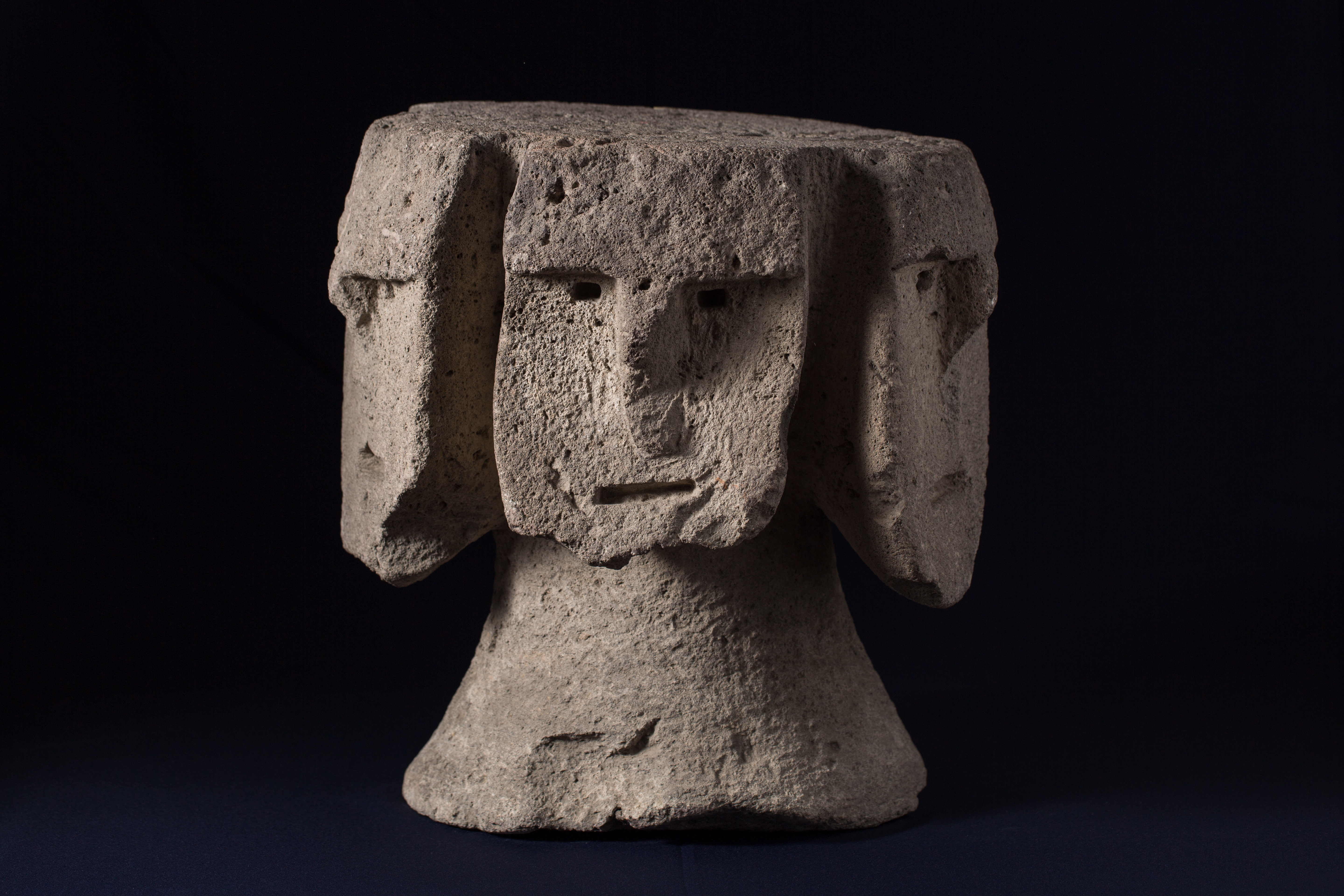 հնգադեմ կուռք